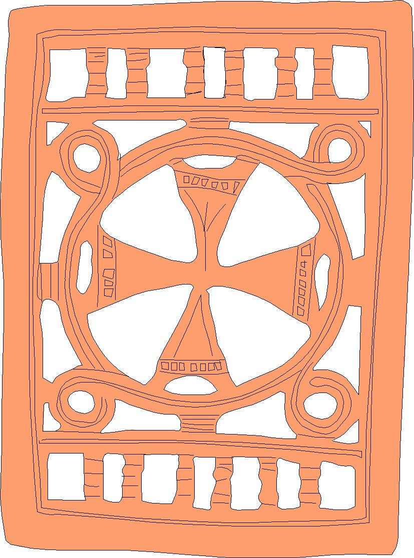 Window in the Church of the Granite Columns at Old Dongola